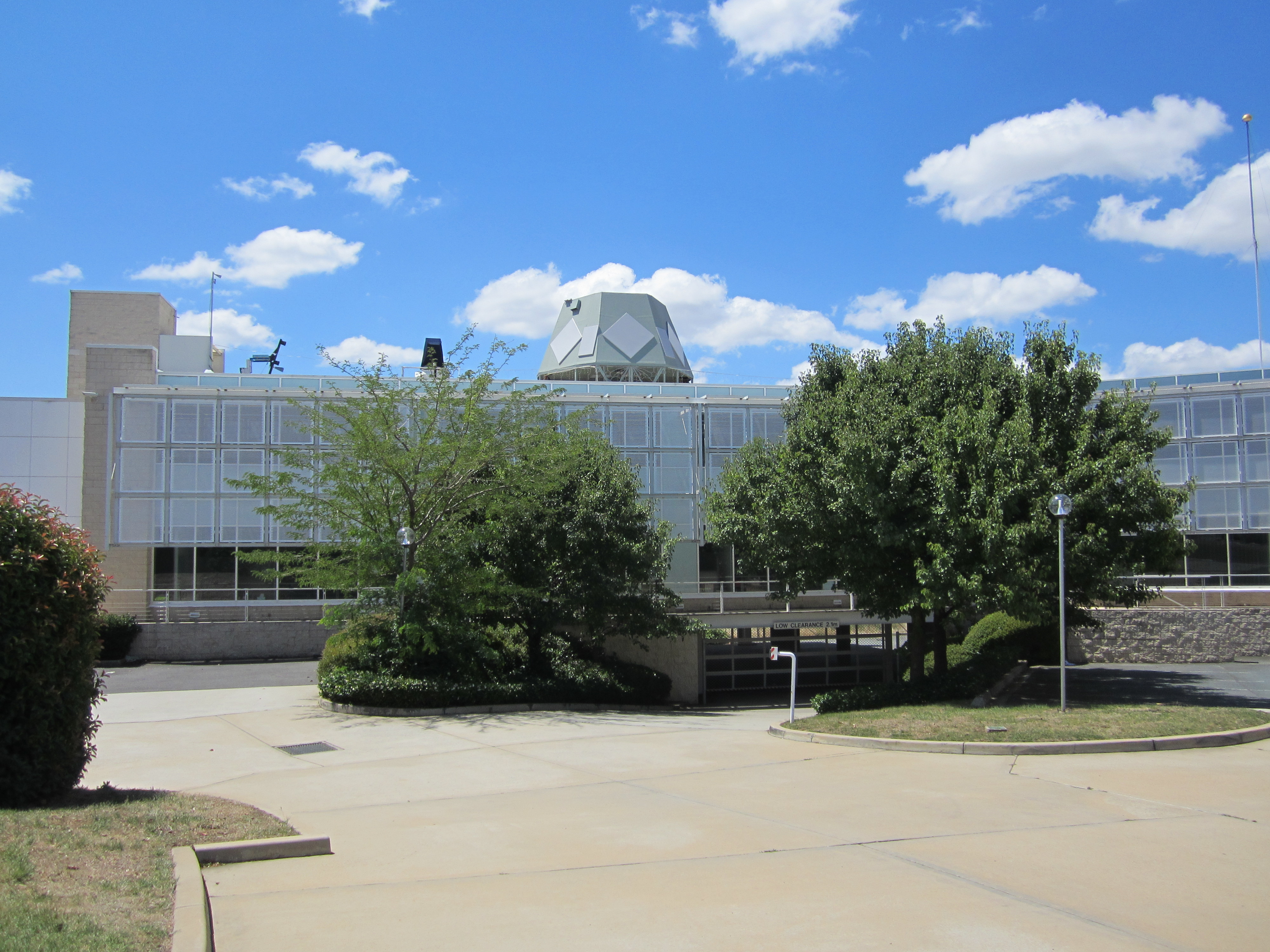 CEA Technologies main building viewed from Gladstone Street